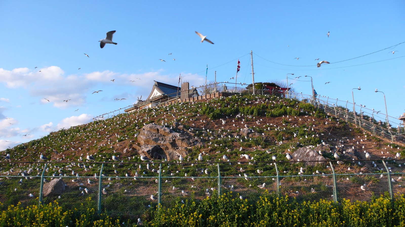 Kabushima in May 2010. Panasonic Lumix DMC-LX2